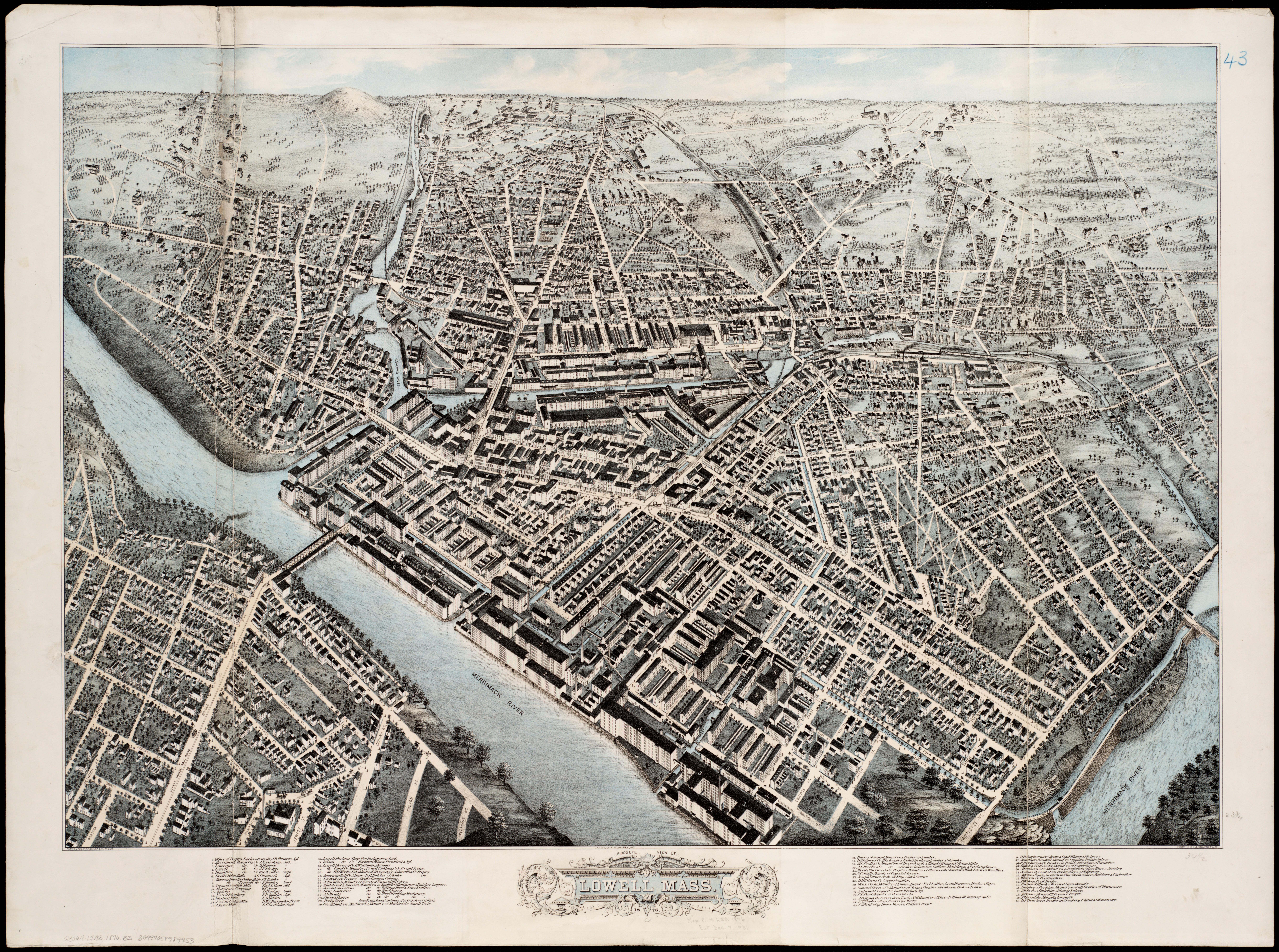 1876 bird's eye view map of Lowell, Massachusetts